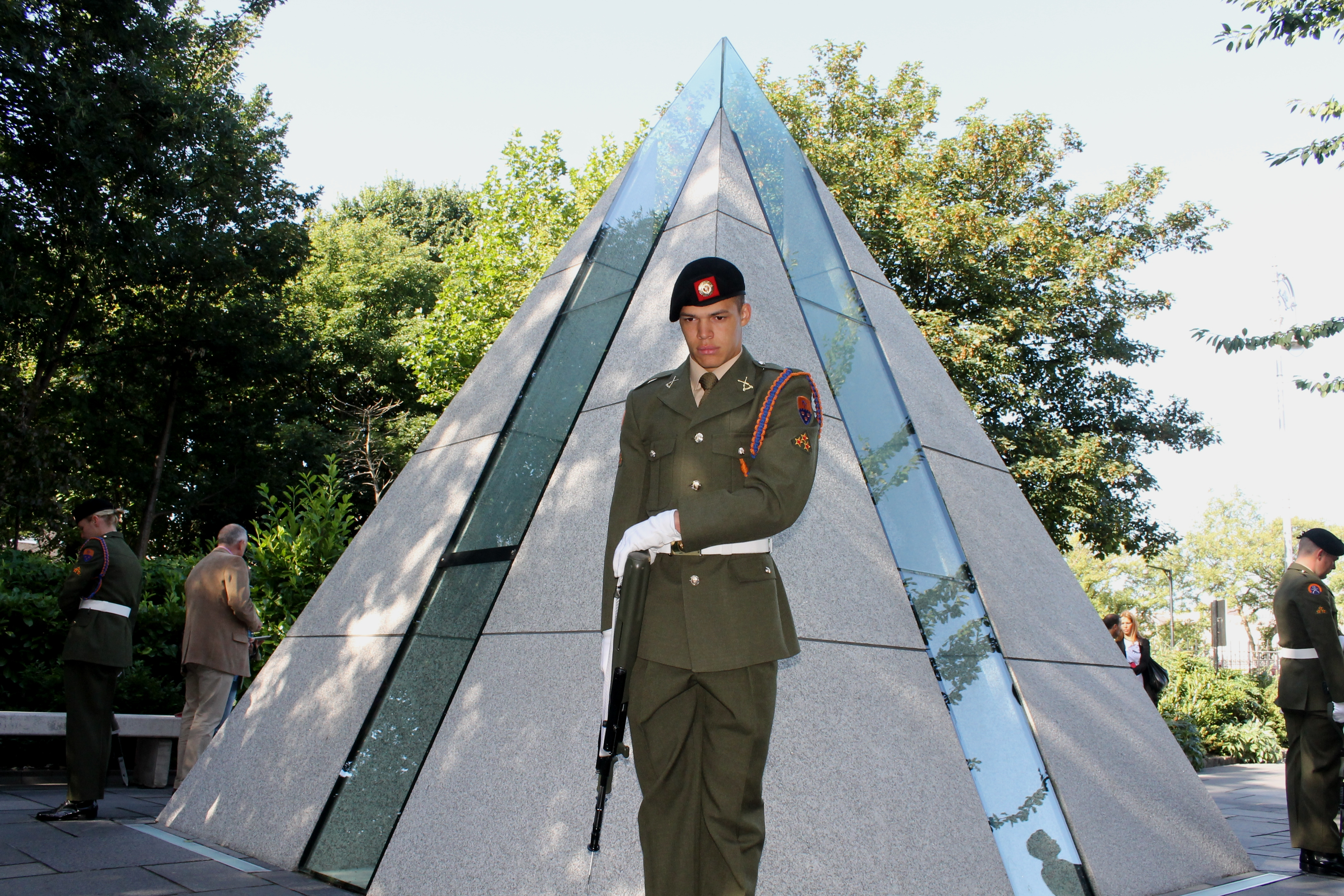 12th Battalion on ceremonial duty